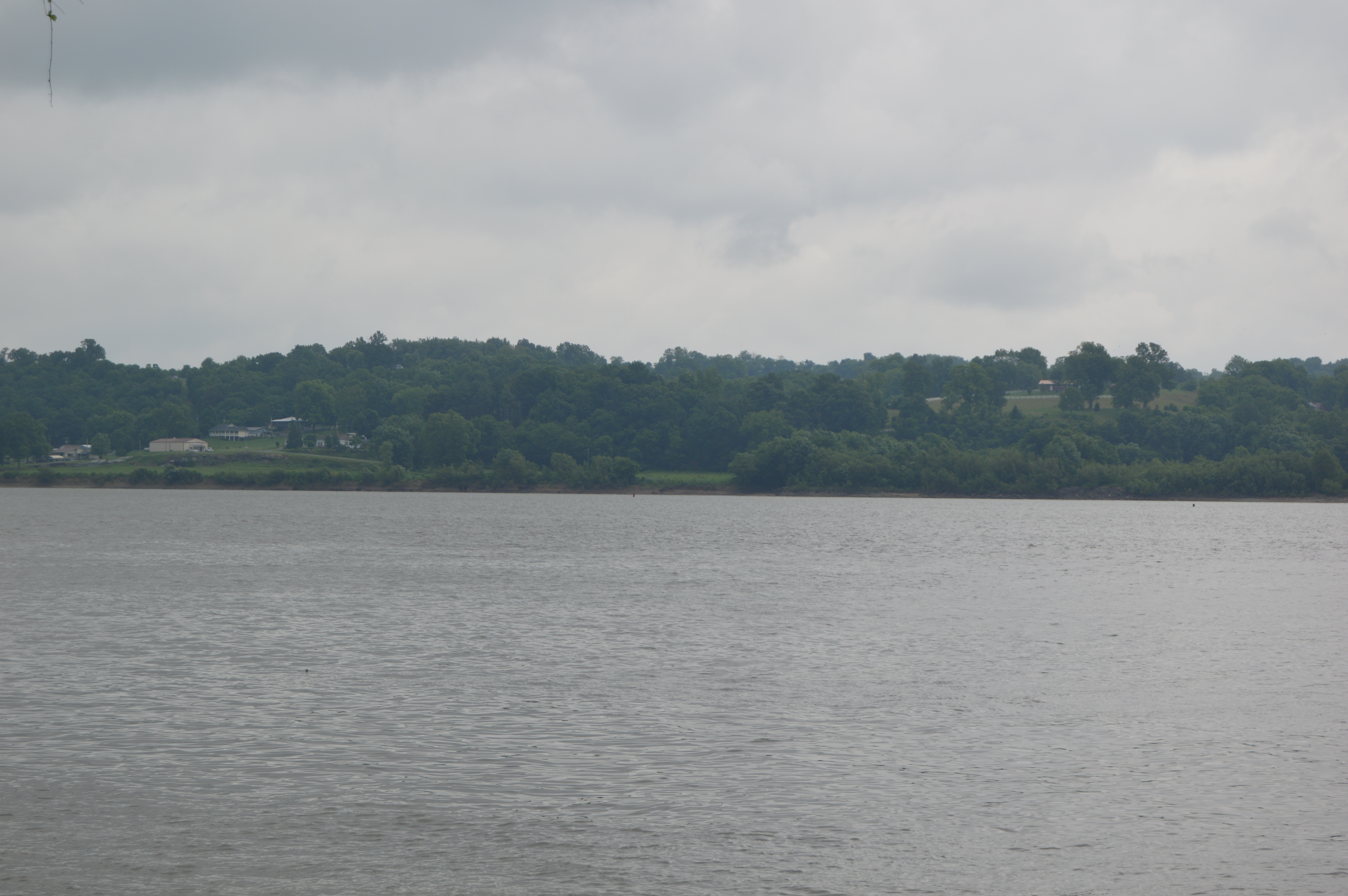 Looking across the Ohio River from the old landing at Battery Rock (Hardin County, Illinois) toward Caseyville, Kentucky, United States.